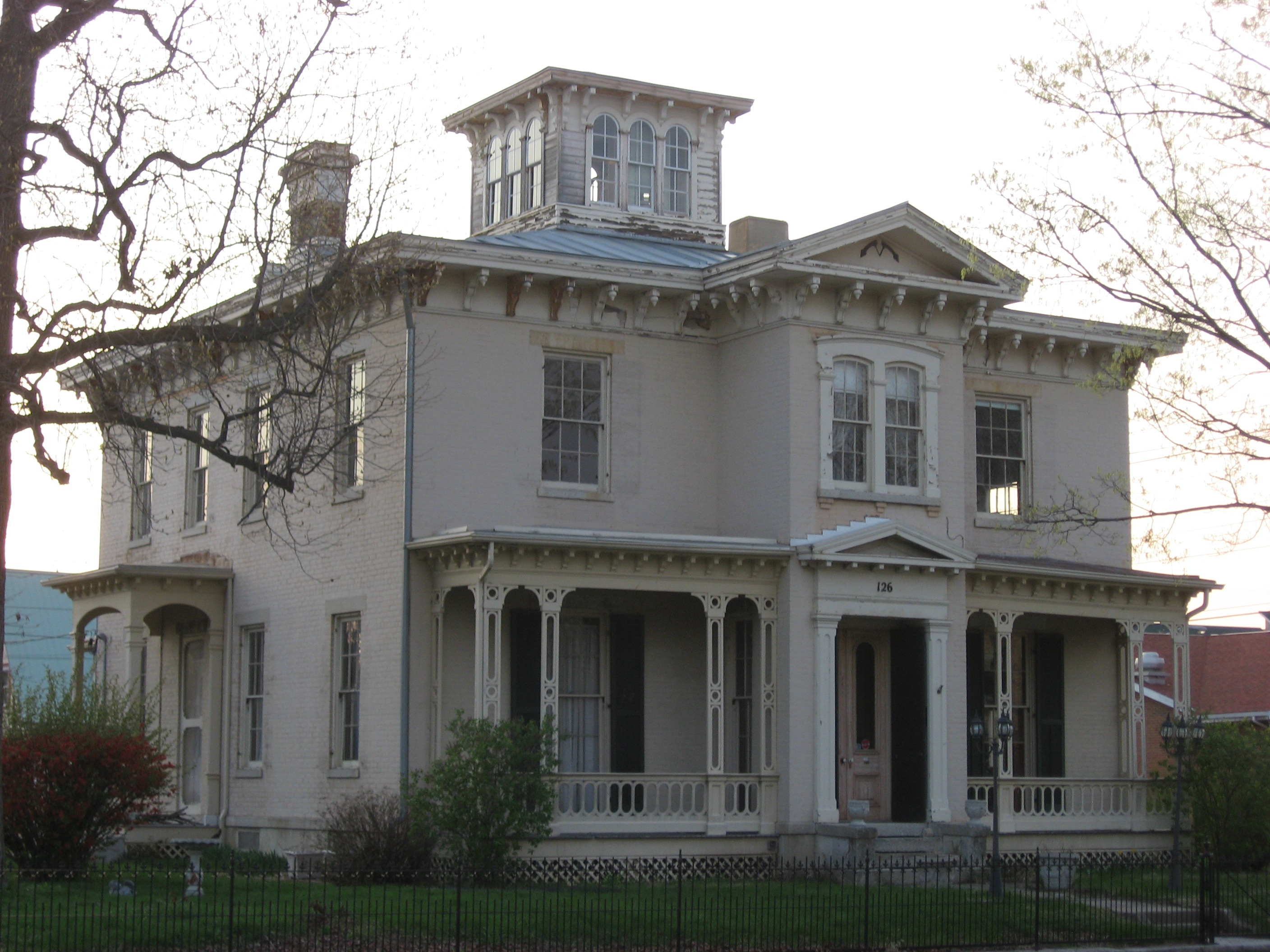 Front of the Andrew F. Scott House, located at 126 N. Tenth Street in downtown Richmond, Indiana, United States. Built in 1858, the house is listed on the National Register of Historic Places.